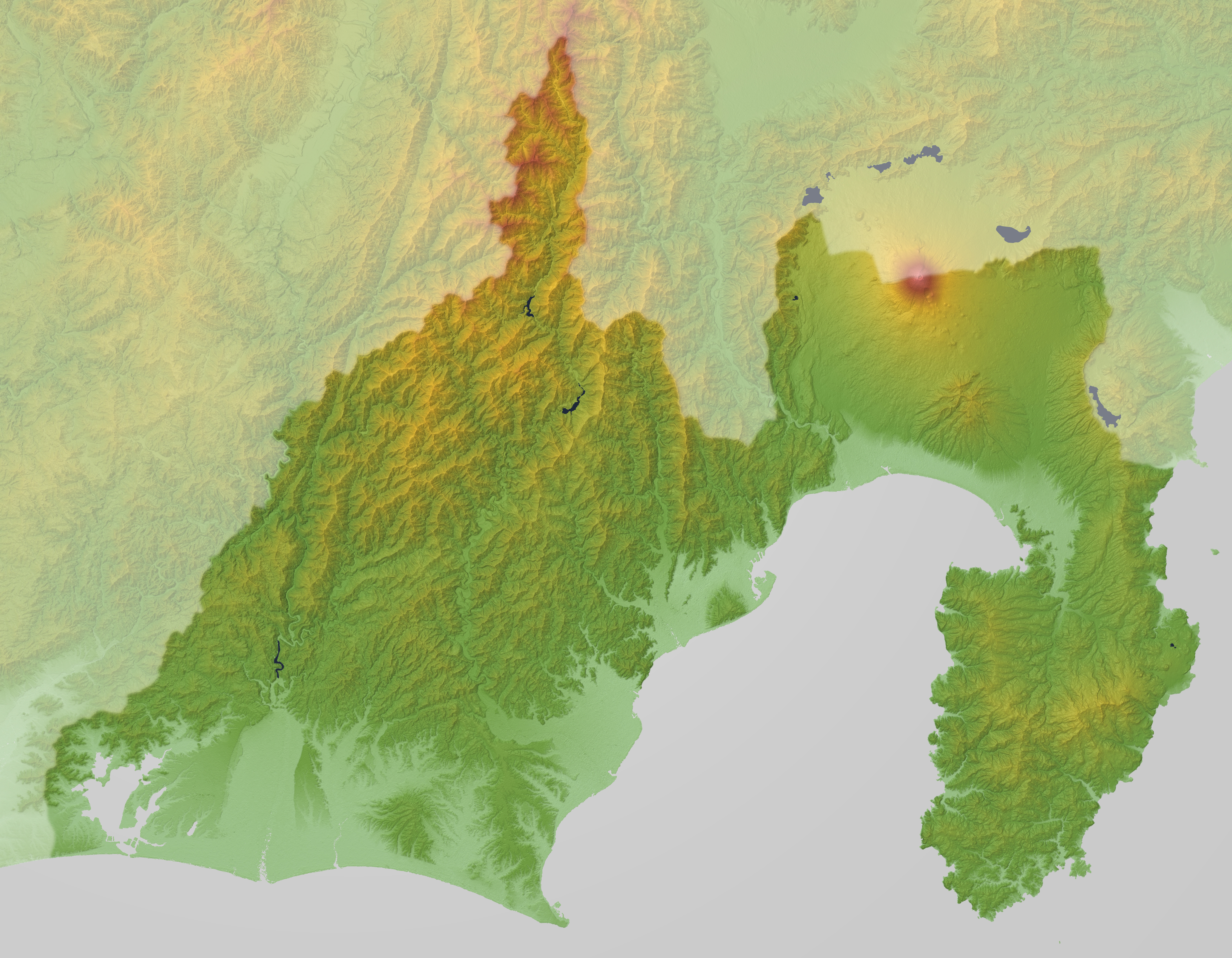 Shizuoka Prefecture in Japan. This file updated by 30m Mesh.